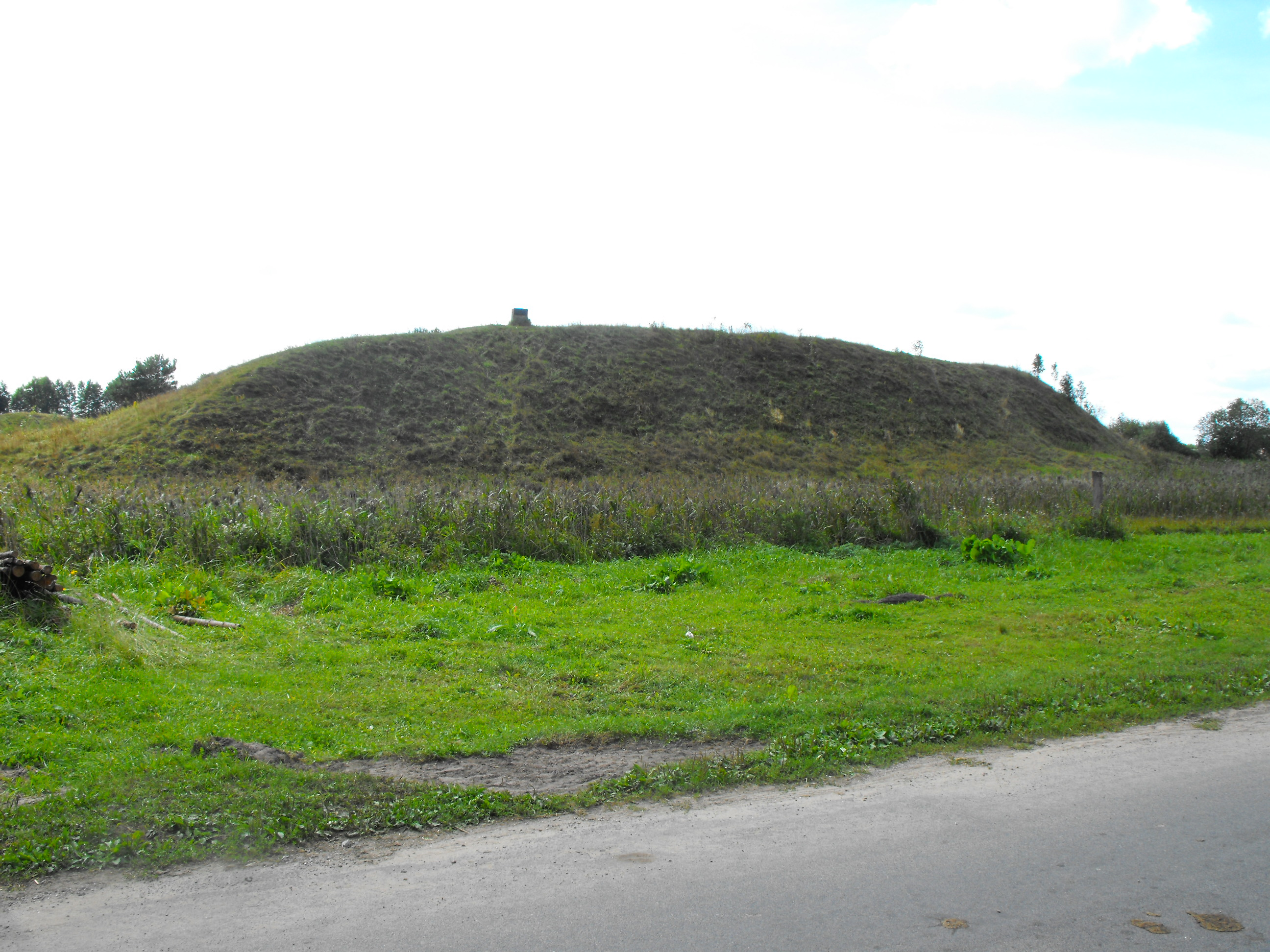 Site of ancient castle. Haradok, Maladzechna district, Belarus.